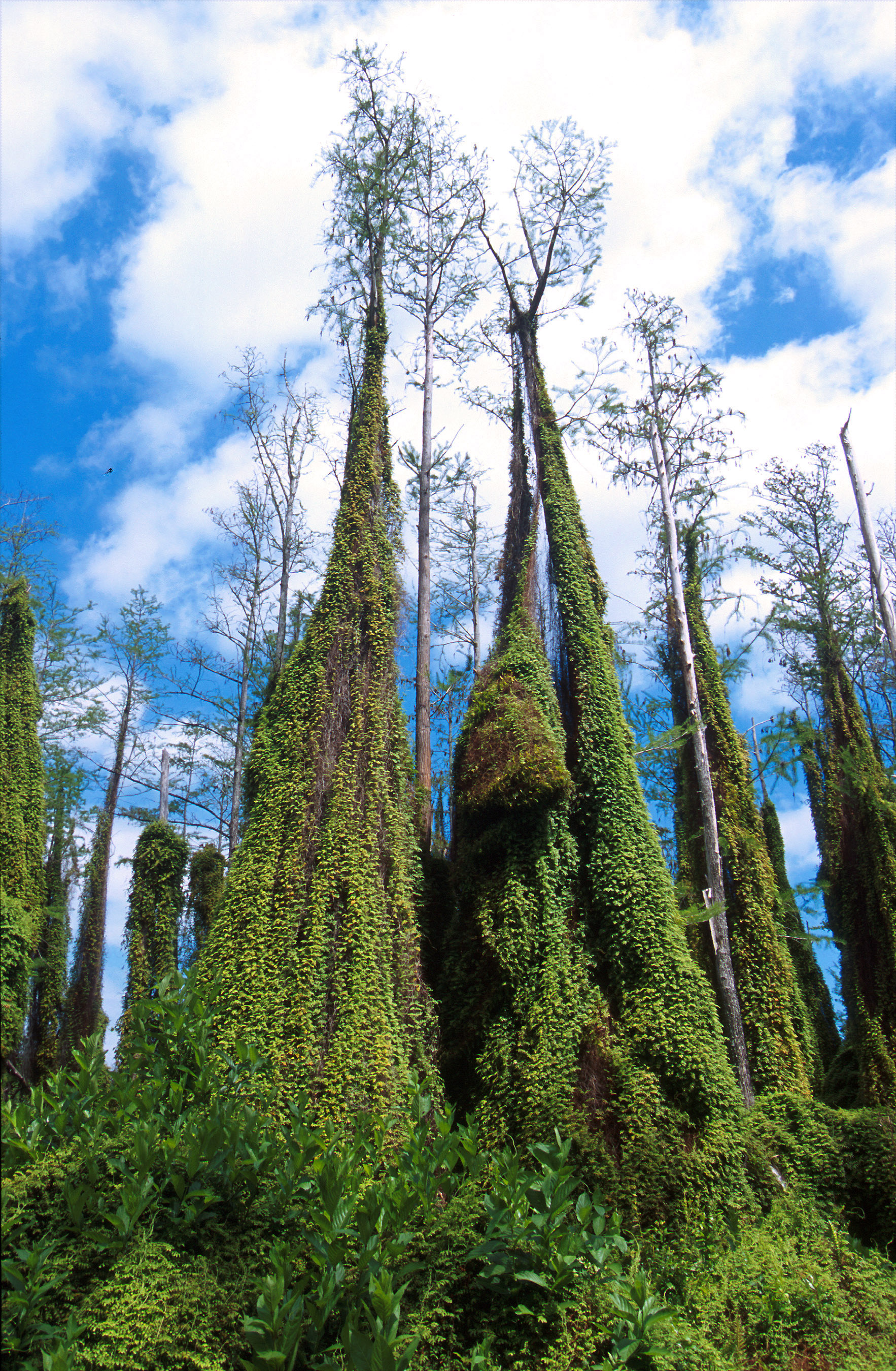 Old World climbing fern (Lygodium microphyllum) growing on cypress trees in southern Florida. The weed forms huge skirts that fires can climb to reach tree tops. Trees without the fern usually survive fire. Photo by Peggy Greb.